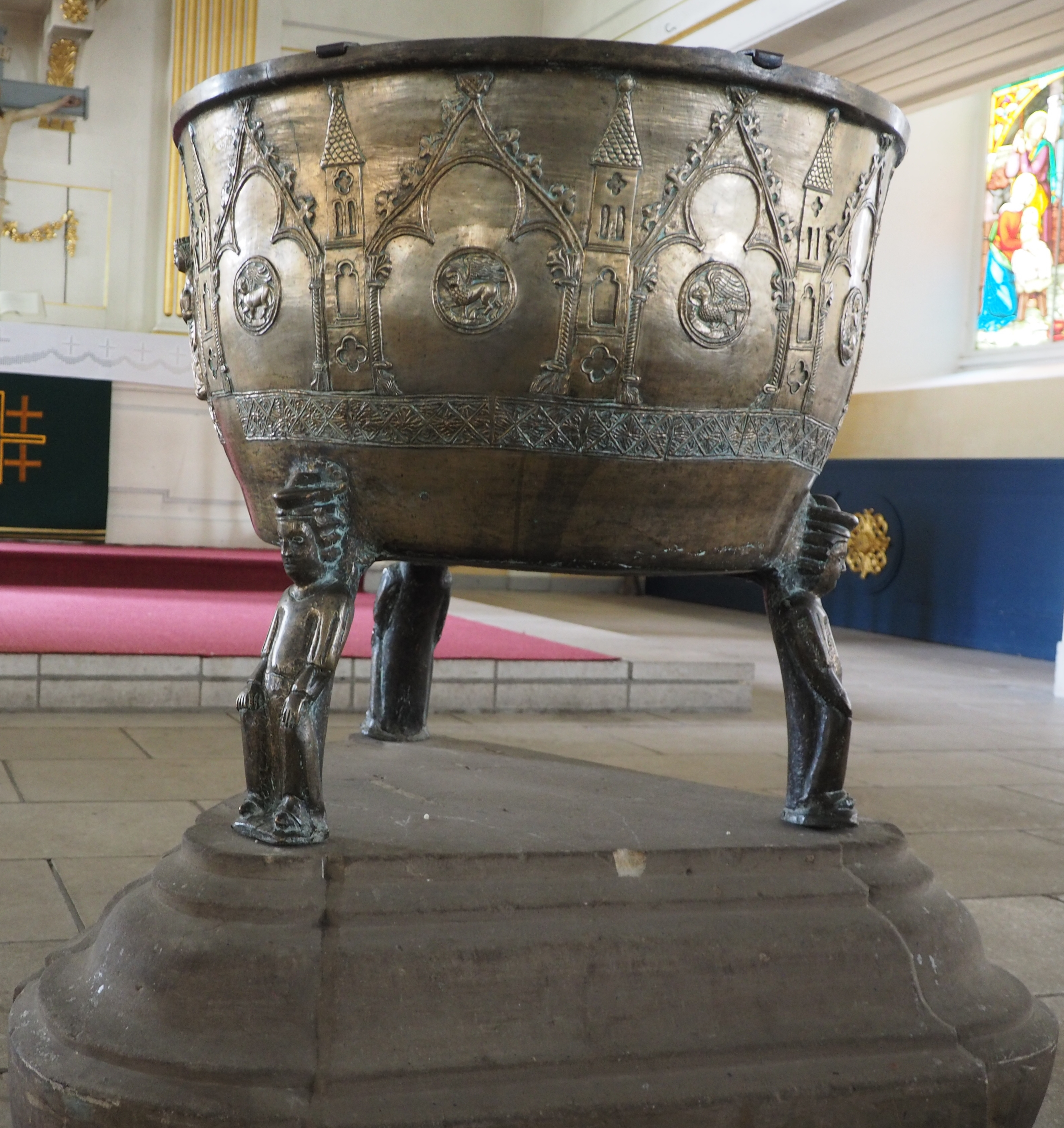 Interior of Church St John the Baptist, Winsen (Aller), Lower Saxony, Germany